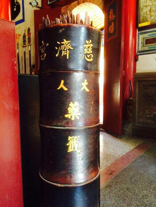 Medical divination lot ( Ciji-Temple, Tainan-City,Taiwan).